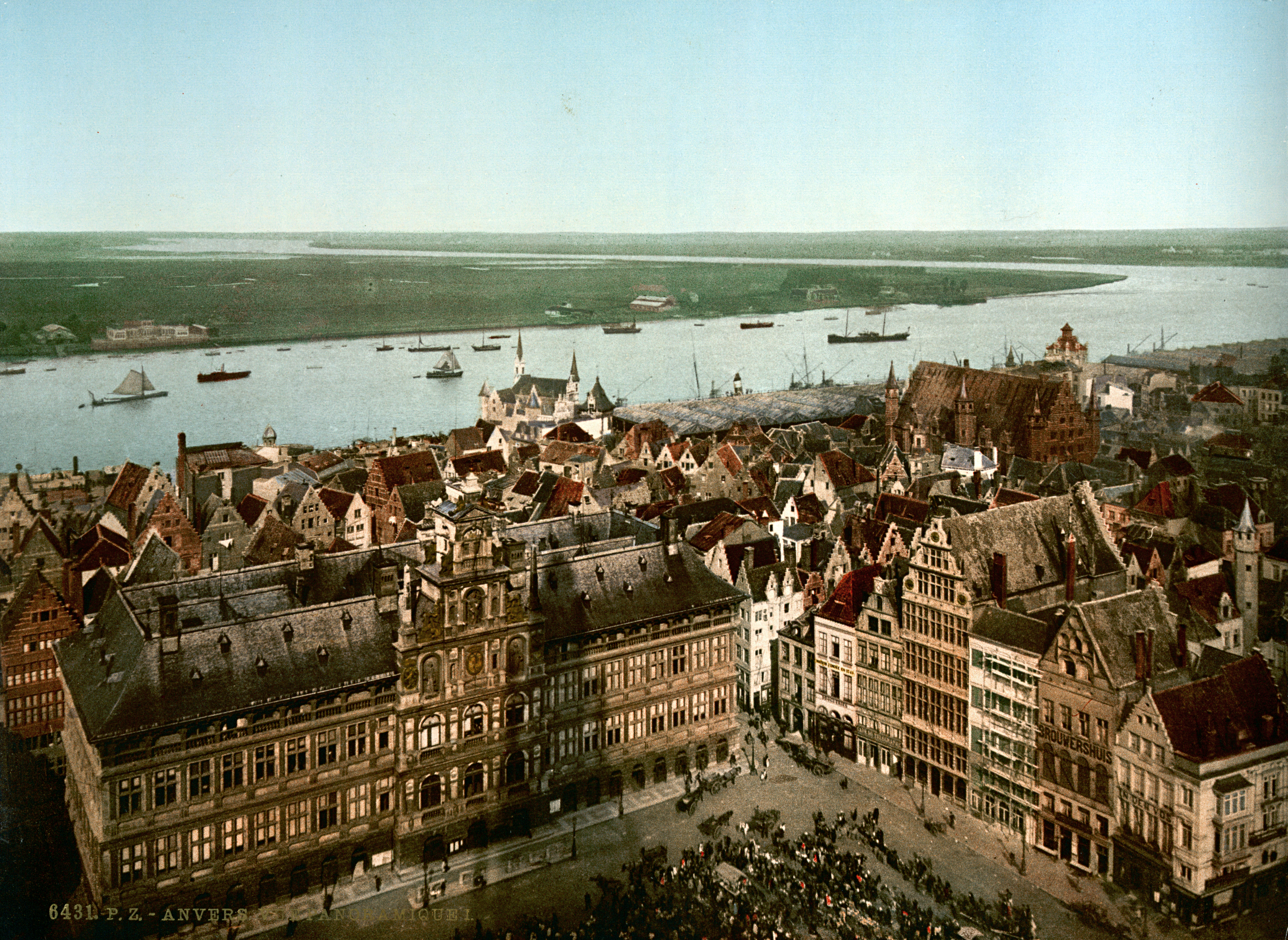 Antwerp and the river Scheldt (ca. 1890-1900)